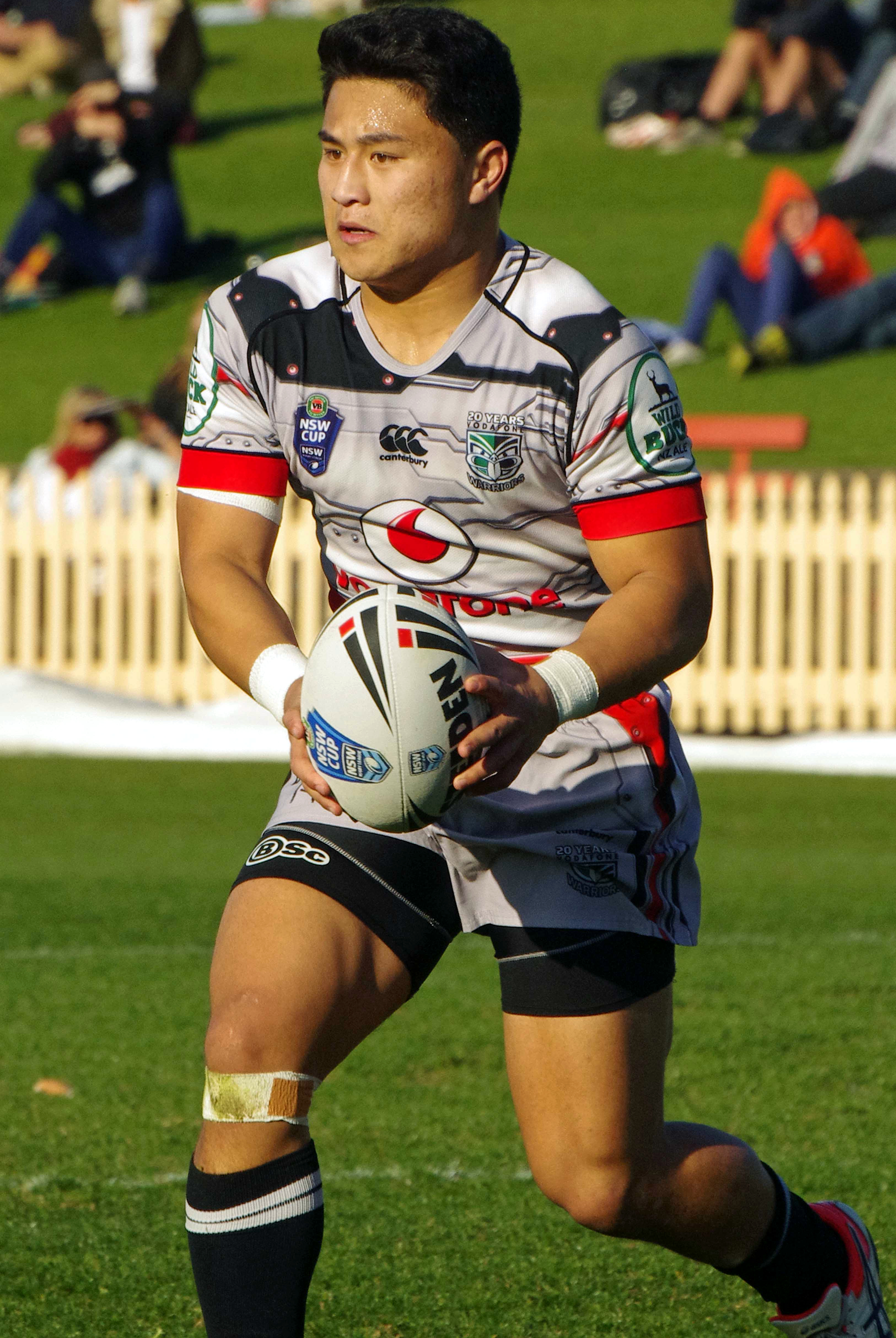 Mason Lino